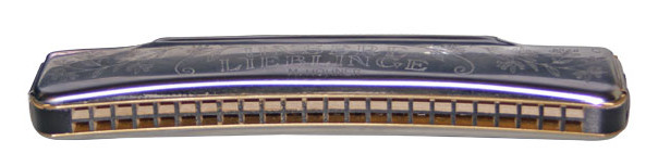 Octave tuned harmonica (Hohner Unsere Lieblinge 48)